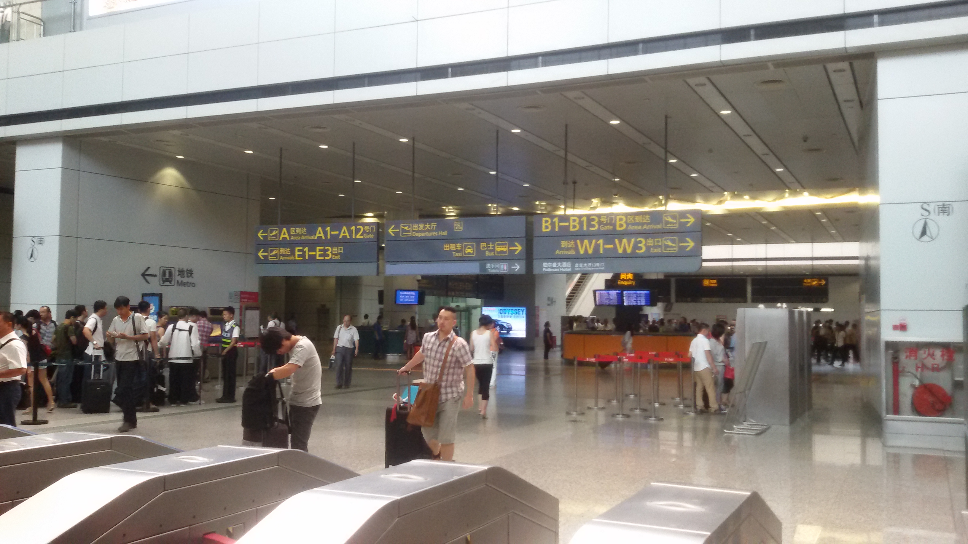 2 EXITS for Airport South Station, Guangzhou Metro. 粵語: 廣州地鐵，機場南站嘅2個出入口。